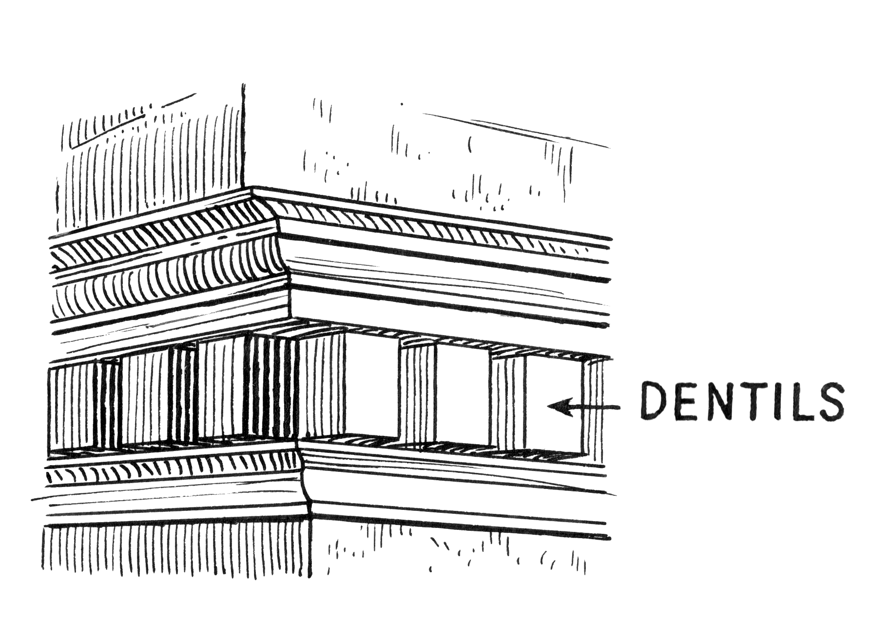 Line art drawing showing dentils.